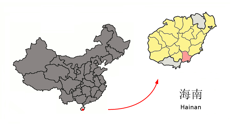 Location of Lingshui County (pink) and the subdivisions directly administered by the province (yellow) within Hainan province of China Map drawn in september 2007 using various sources, mainly : Hainan Counties map from